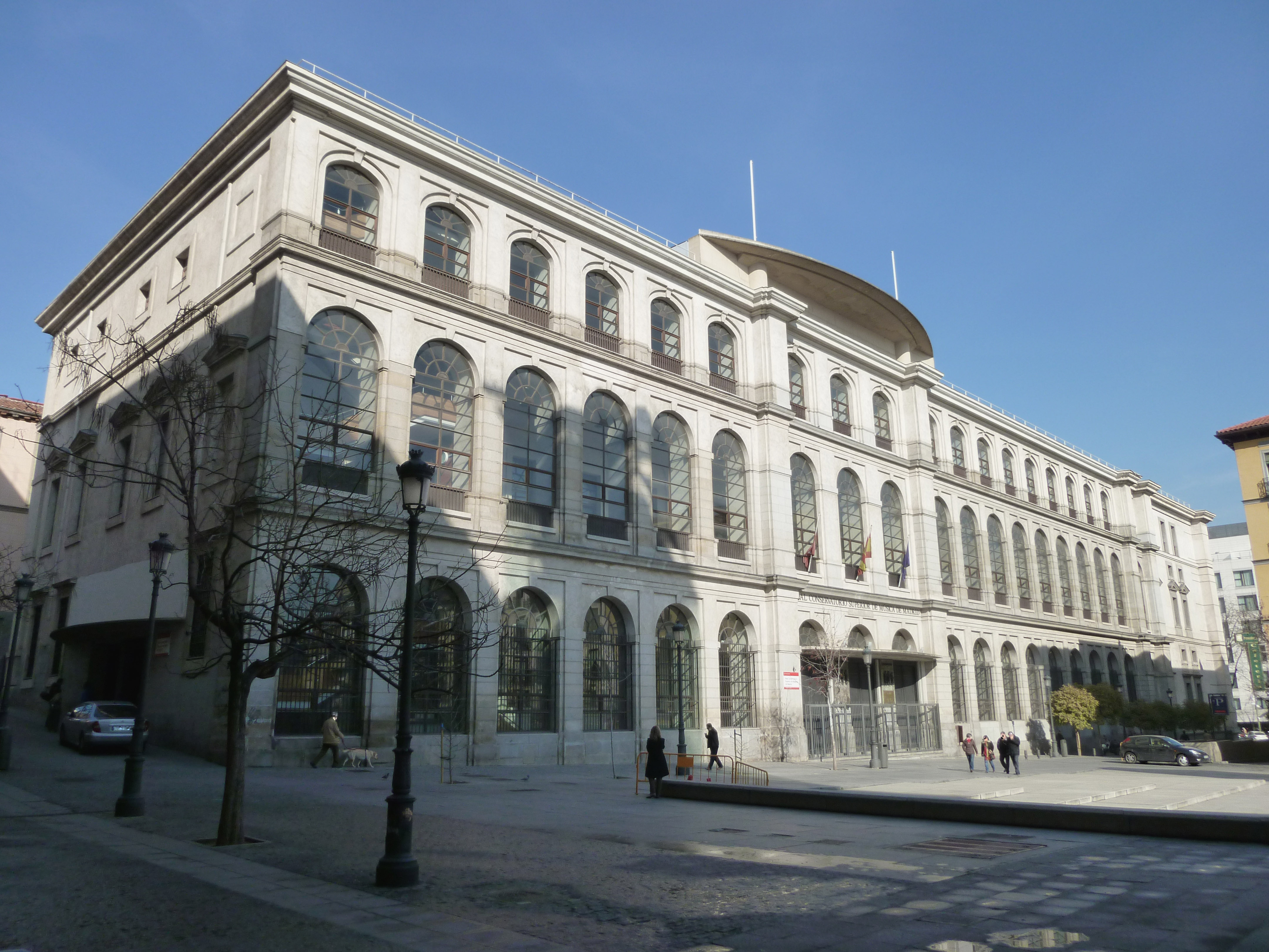 Royal Conservatory of Madrid (Spain), at 2nd Calle del Doctor Mata (street) in Centro district. Building was projected in 1769 by architect Francesco Sabatini and built between 1769 and 1788 as San Carlos Hospital. It was remodeled as a conservatory from 1987 to 1990.